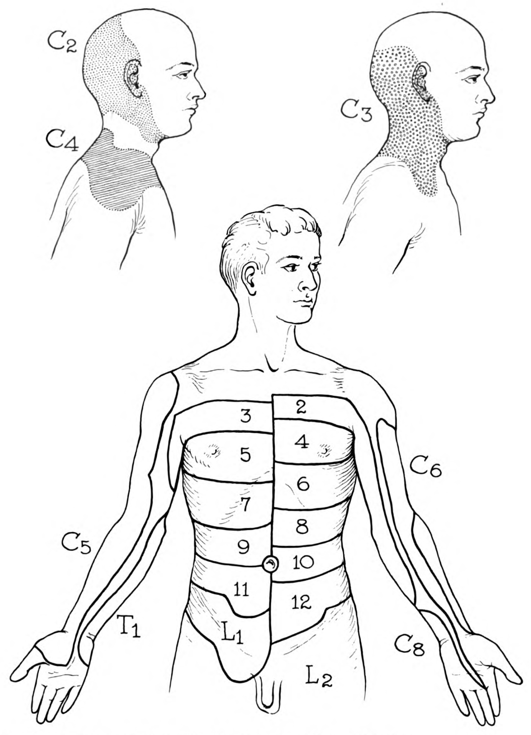 Dermatomes of the Upper Parts of the Body (Modified, from Fender, after Foerster) A dermatome is an area of skin supplied by the dorsal (sensory) root of a spinal nerve. The dermatomes were determined by plotting (a) the areas of vasodilation that resulted on stimulation of individual dorsal nerve roots, and (b) the areas of "remaining sensibility" after cutting three roots above and three roots below a given nerve root. The areas plotted represent the average finding for each dorsal root based on pain sensation. Areas determined for temperature sensation have similar limits, but those for touch are more extensive. Note that there is considerable overlapping of con- tiguous dermatomes; that is to say, each segmental nerve overlaps the territories of its neighbours. As a result, no anesthesia results unless two or more con- secutive dorsal roots have lost their functions. The 7th cervical dermatome (not depicted) begins lower on the upper arm than the 6th and includes most, or all, of the hand.